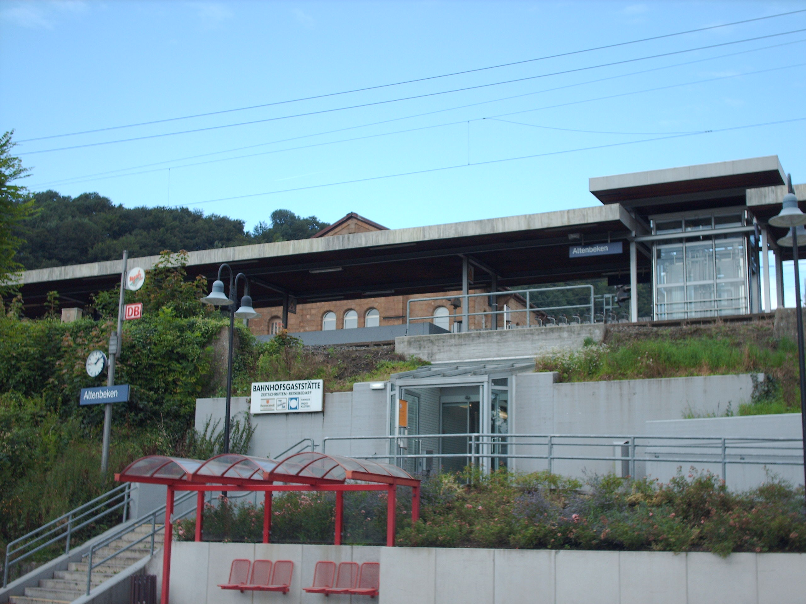 Altenbeken station, Altenbeken, Germany check usage